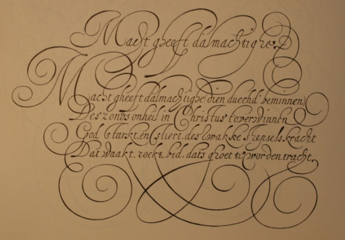 Calligraphy example